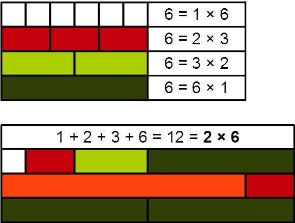 Showing, through Cuisenaire rods, that 6 is a multiply perfect number.